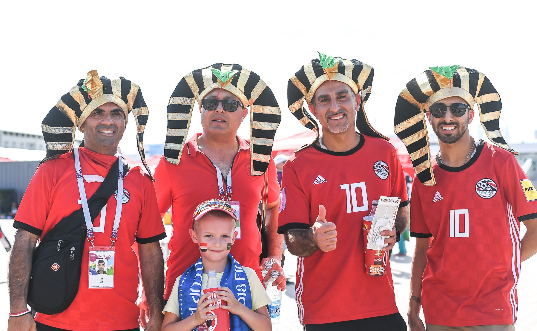 Saudi Arabia and Egypt match at the FIFA World Cup 2018-06-25